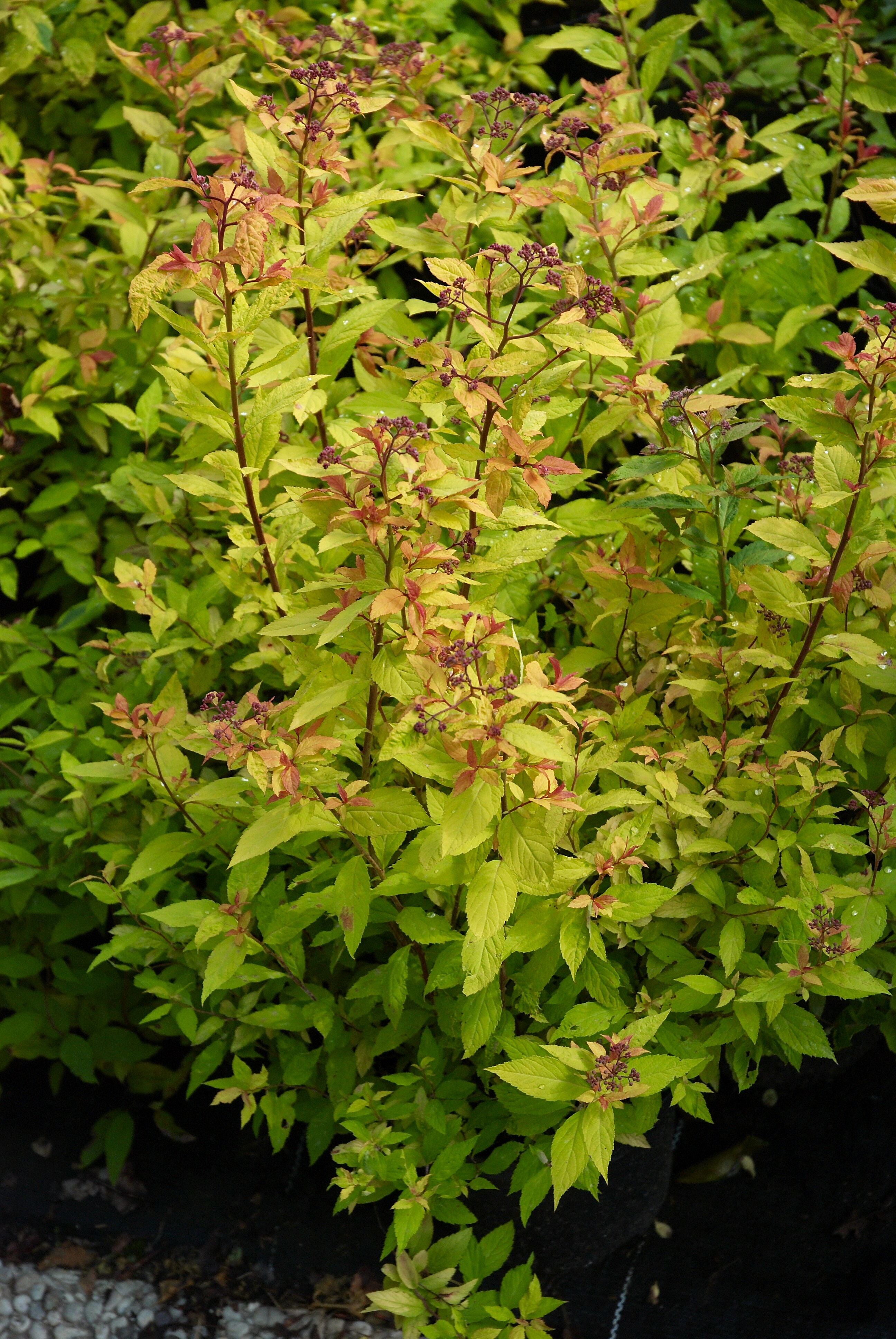 Spiraea japonica 'Goldflame'. This photo has been taken in Belgium.